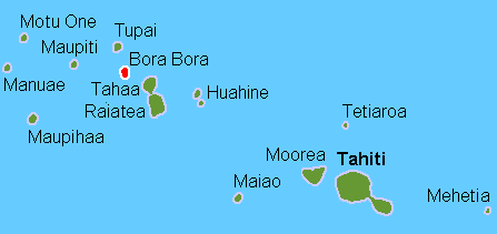 Location of Bora Bora within Society Islands, French Polynesia